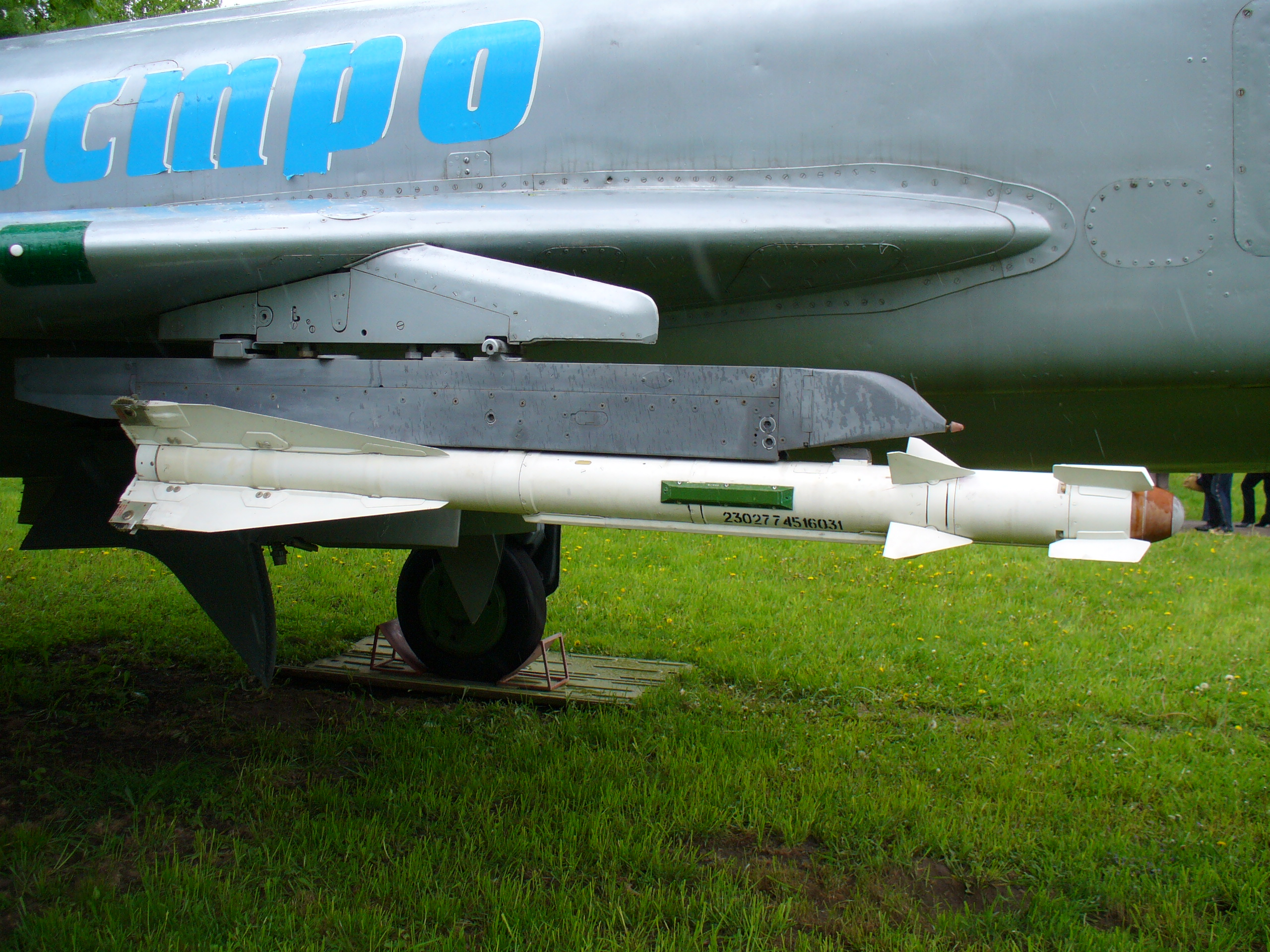 The Sukhoi Su-15TM (NATO reporting name "Flagon-F"), a Soviet interceptor aircraft. Has personal names "Leonid Bykov" and "Maestro" in memory of the Soviet actor Leonid Bykov. Ukrainian Air Force Museum in Vinnitsa.